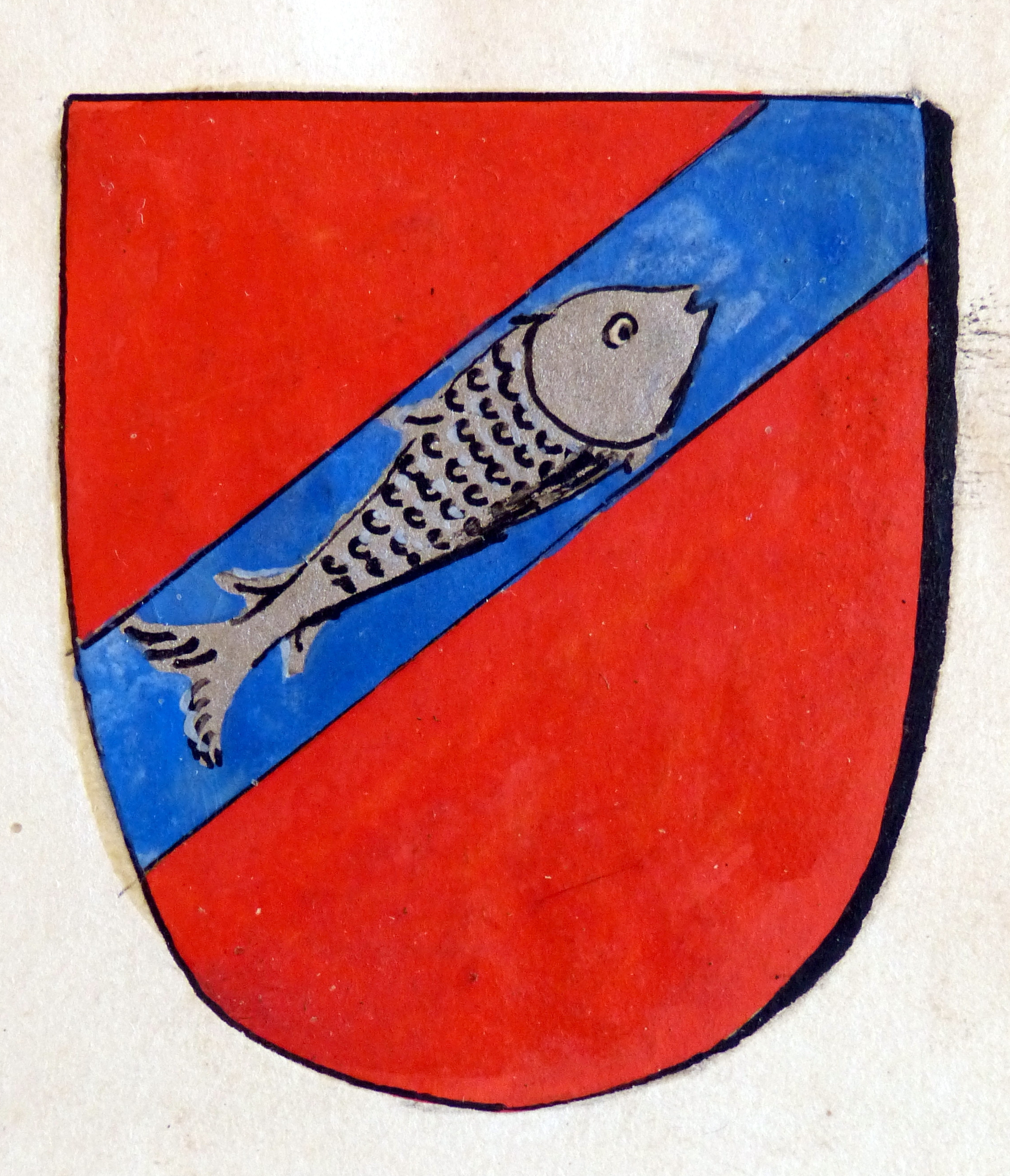 Coats of arms of Salome Alt von Altemau ( seit 1600 ). Miniature painting by Ernst count Sprinzenstein ( ca. 1890 )